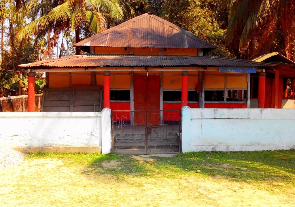 chanmaguri namghar